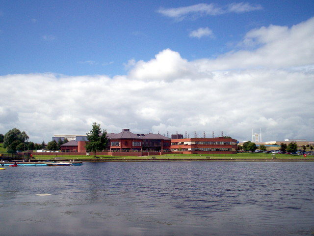 Craigavon Lakes Harbour Area The Water Sports Centre operates from this area and in the background is Craigavon Civic and Conference Centre.